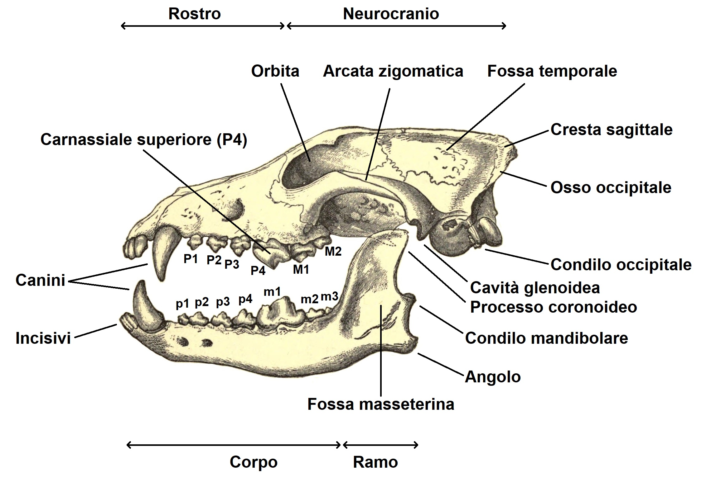 Drawing of a wolf cranium with key anatomical parts labelled in Italian. The skull outline is from Mirvat 1890 available at: and the common anatomical terms available from